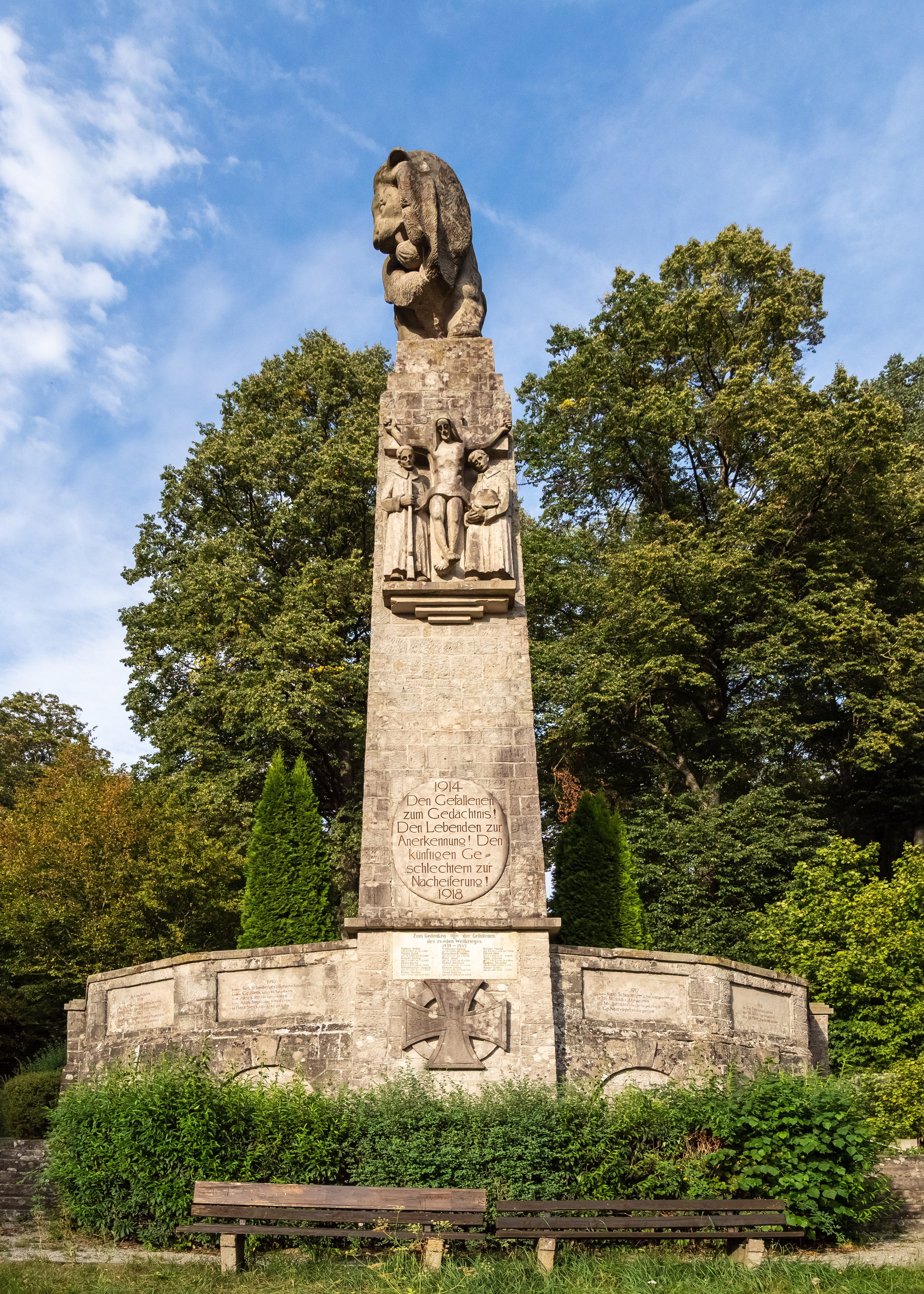 War memorial in Unterschleichach am Scheidberg